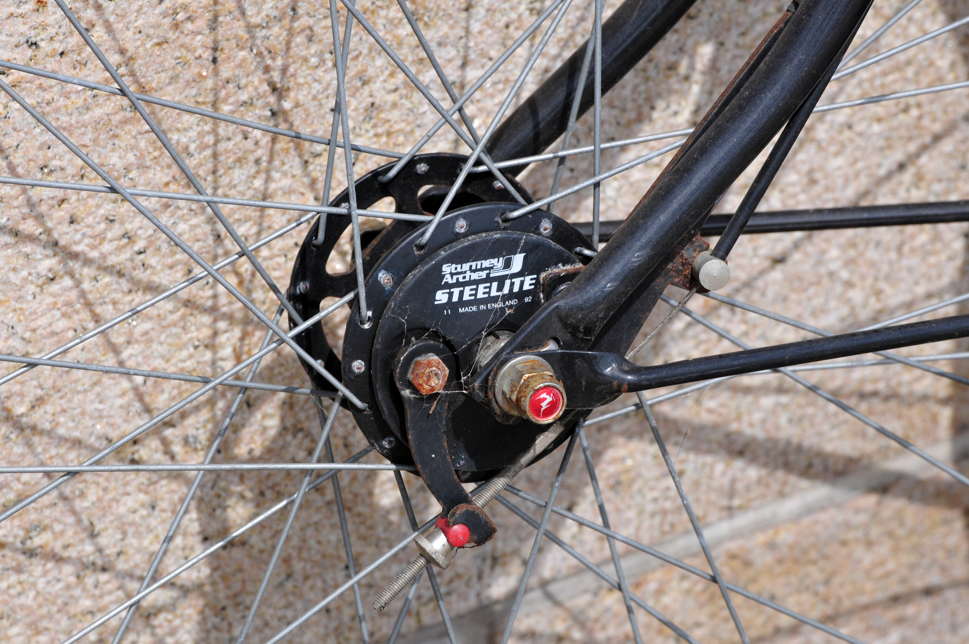 bicycle